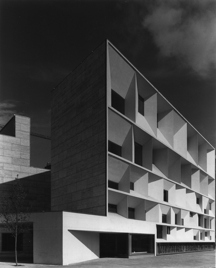 View of the façade of the León Auditorium, by Mansilla + Tuñón